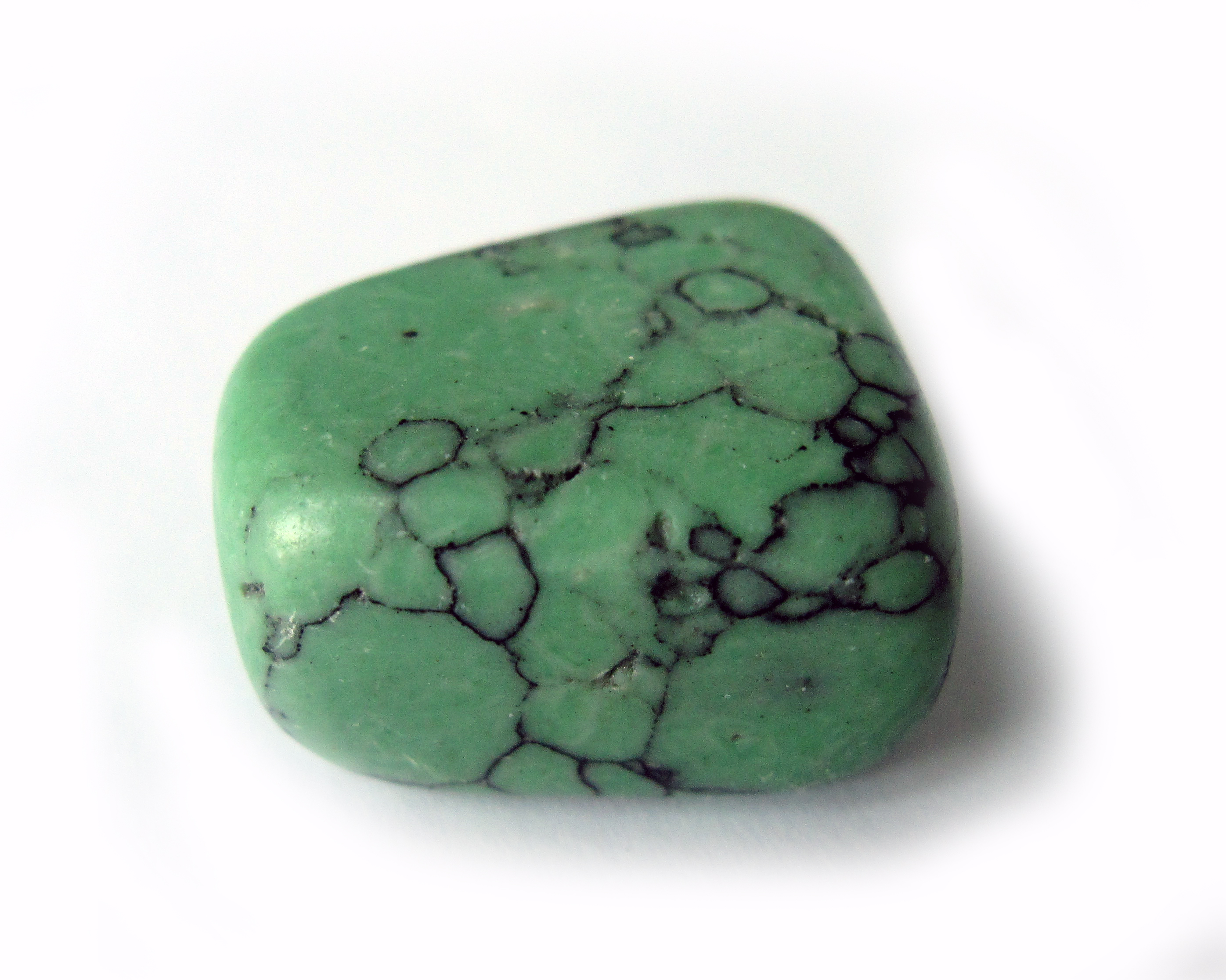 A polished chrysoprasestone stone on a white background.